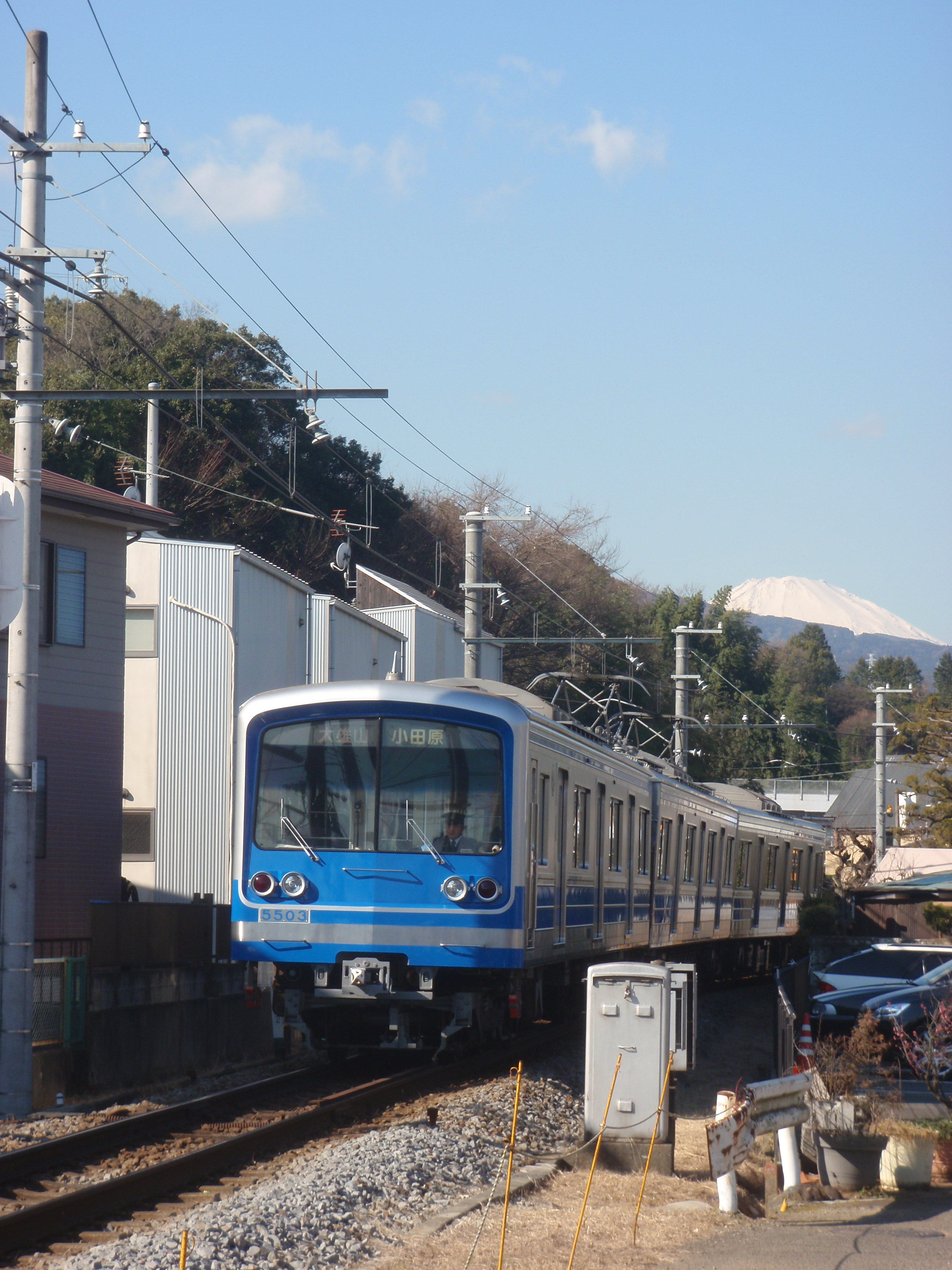 A train of Daiyuzan Line, Izu Hakone Railway, Kanagawa, Japan and Mt. Fuji.